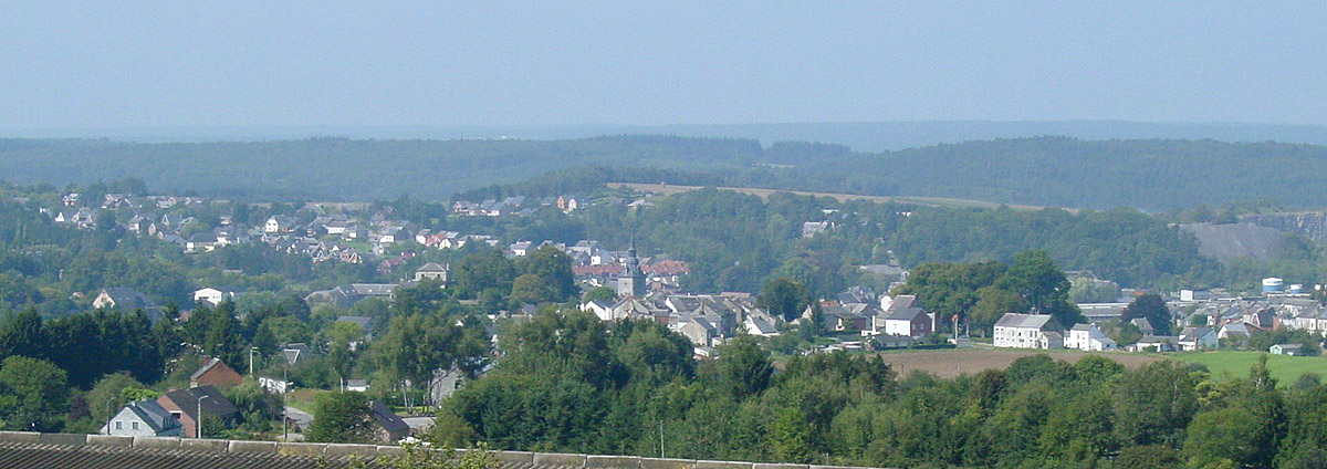 View of Couvin on 2005-09-03, taken by David Edgar.